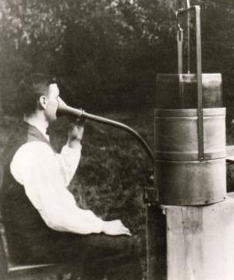 Dräger oxygen machine